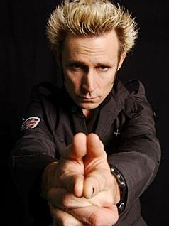 Mike Dirnt